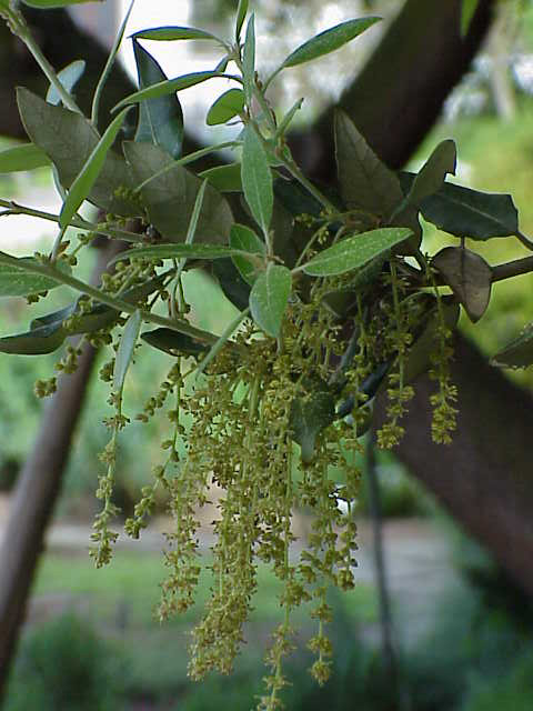 Species: Quercus ilex Family: Fagaceae Image No. 2